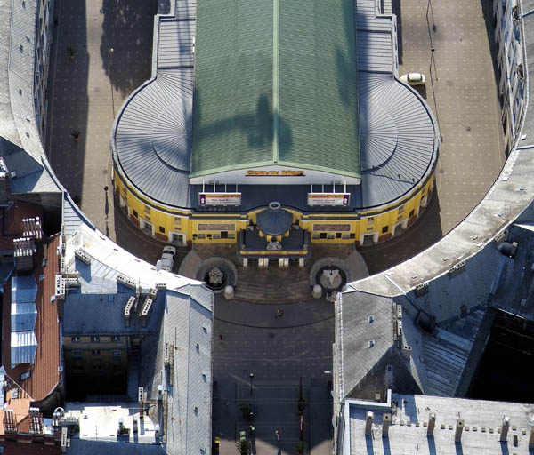 Corvin cinema, Budapest, Hungary, aerial photography